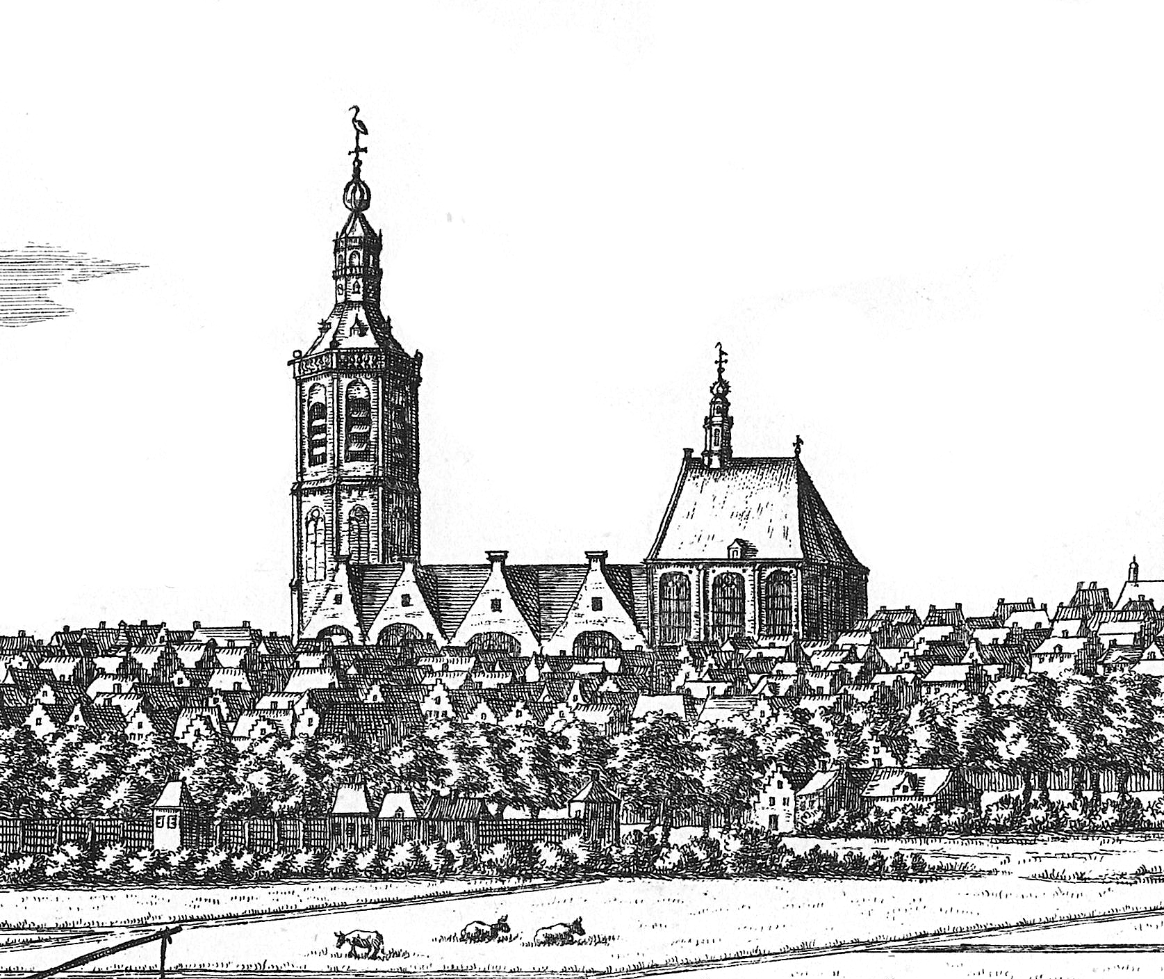 Great or Saint-Jacob Church, The Hague.